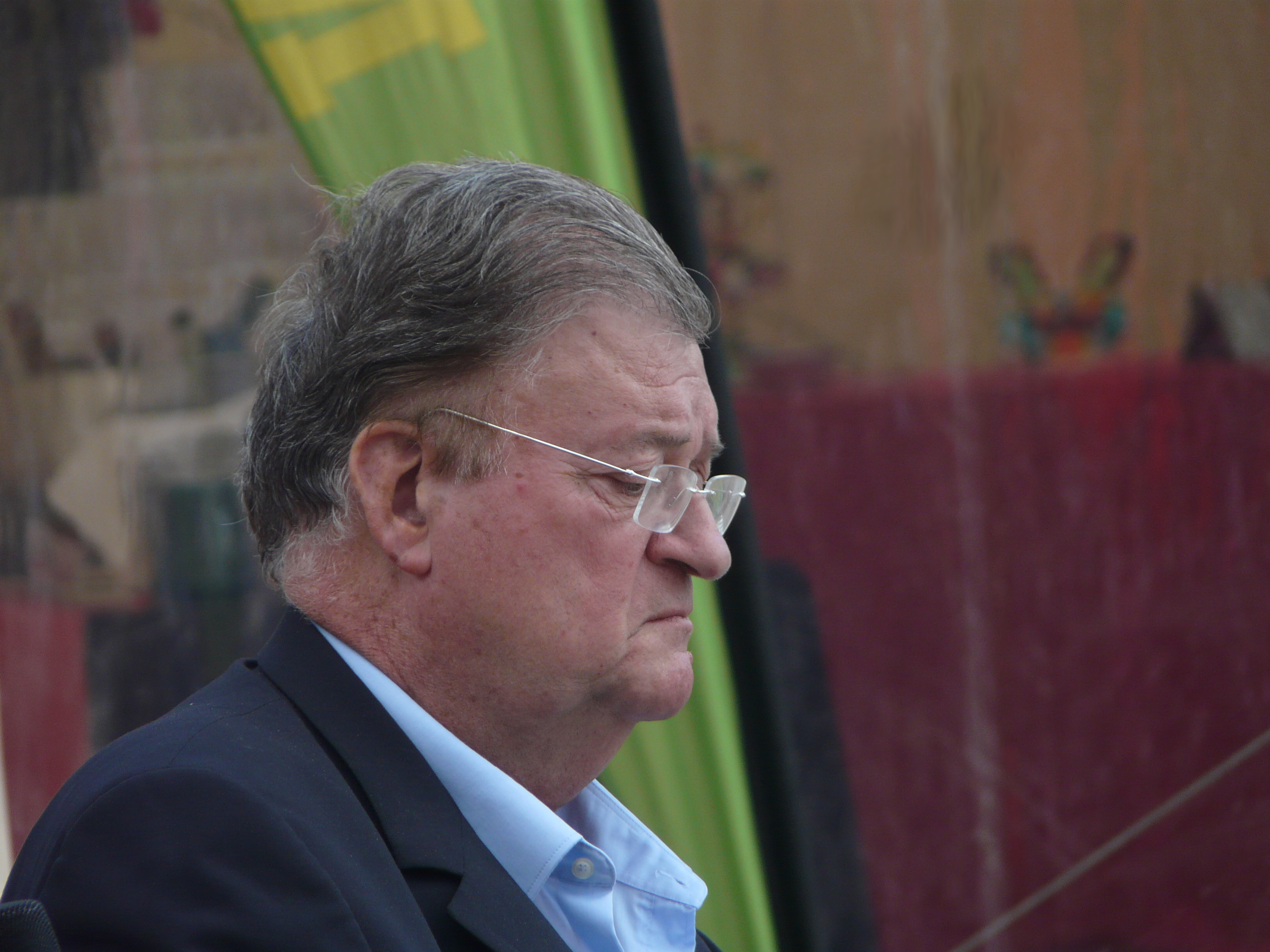 George Frêche at the inauguration of the Comic Festival "O tour de la bulle" of Montpellier, the 18th of september 2008.